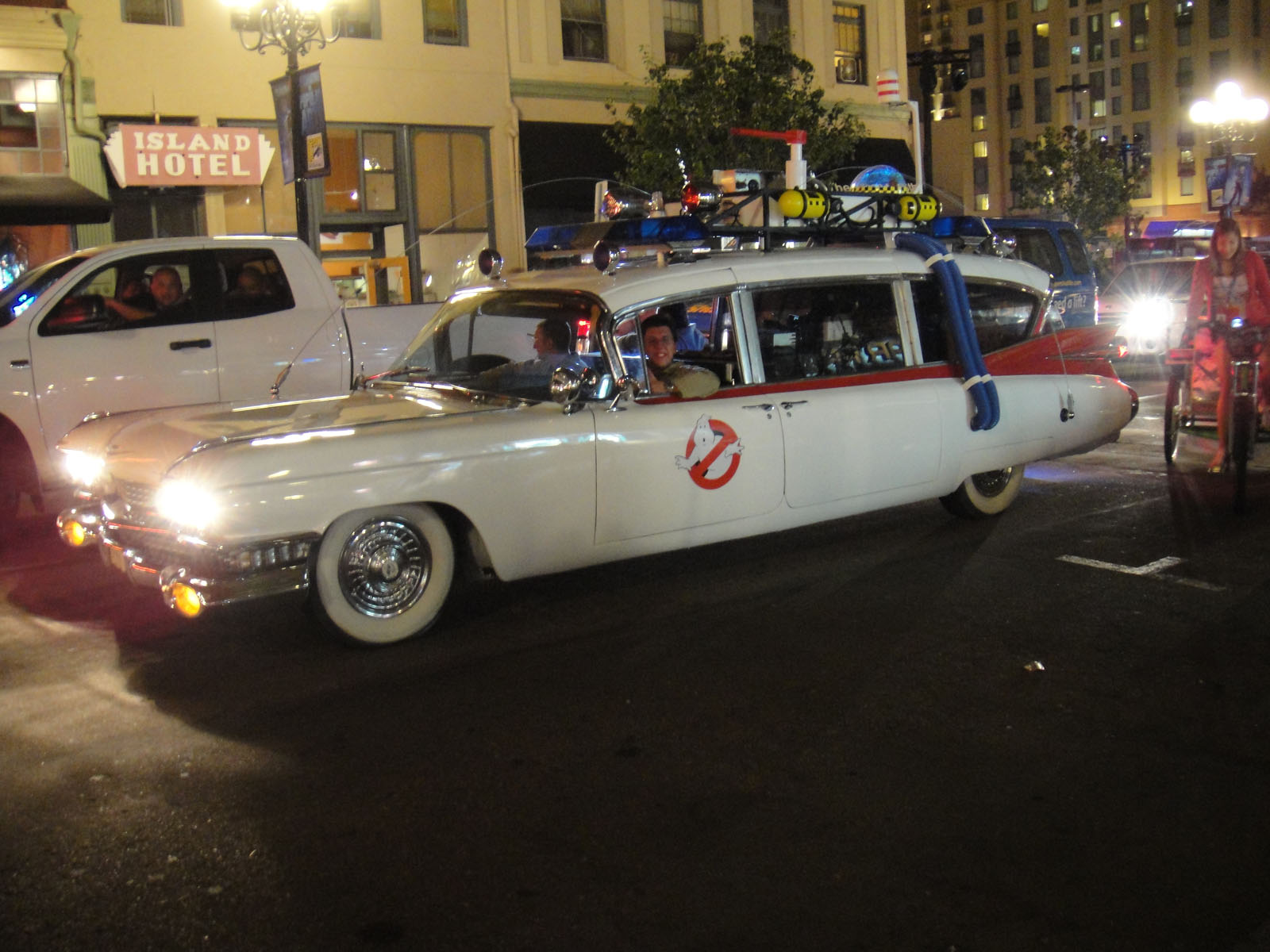 The Ghostbusters vehicle, Ecto-1, being driven in San Diego at Comic-con